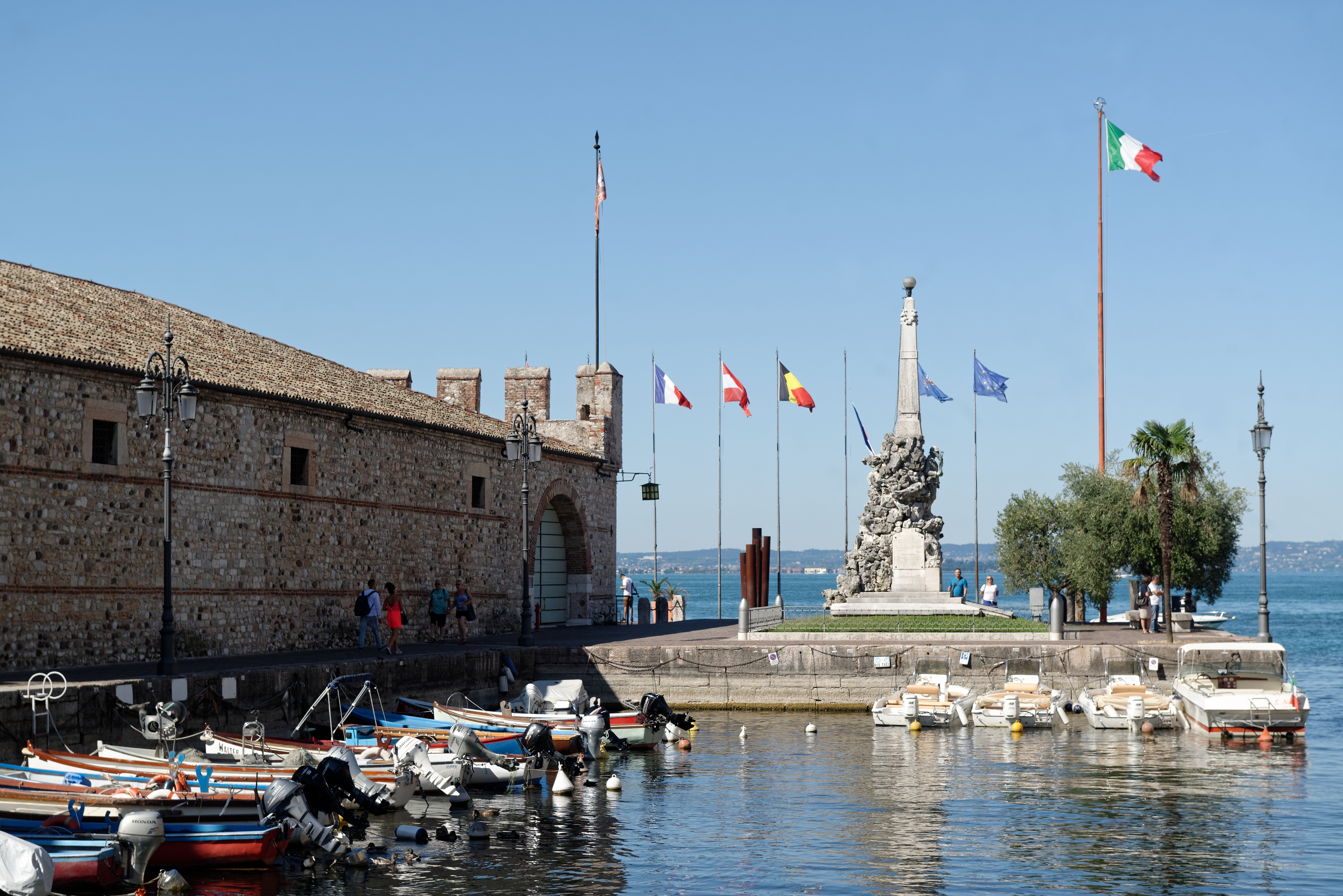 Harbour of Lazise, Italy.